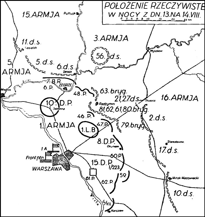 Battle for the Warsaw bridgehead. Location of the units at night of August 13-14, 1920. Sketch No. 45.